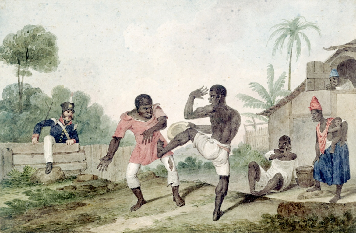 Negros fighting using Capoeira steps. Painting by Augustus Earle depicting the illegal capoeira game/dance/martial art in Rio de Janeiro